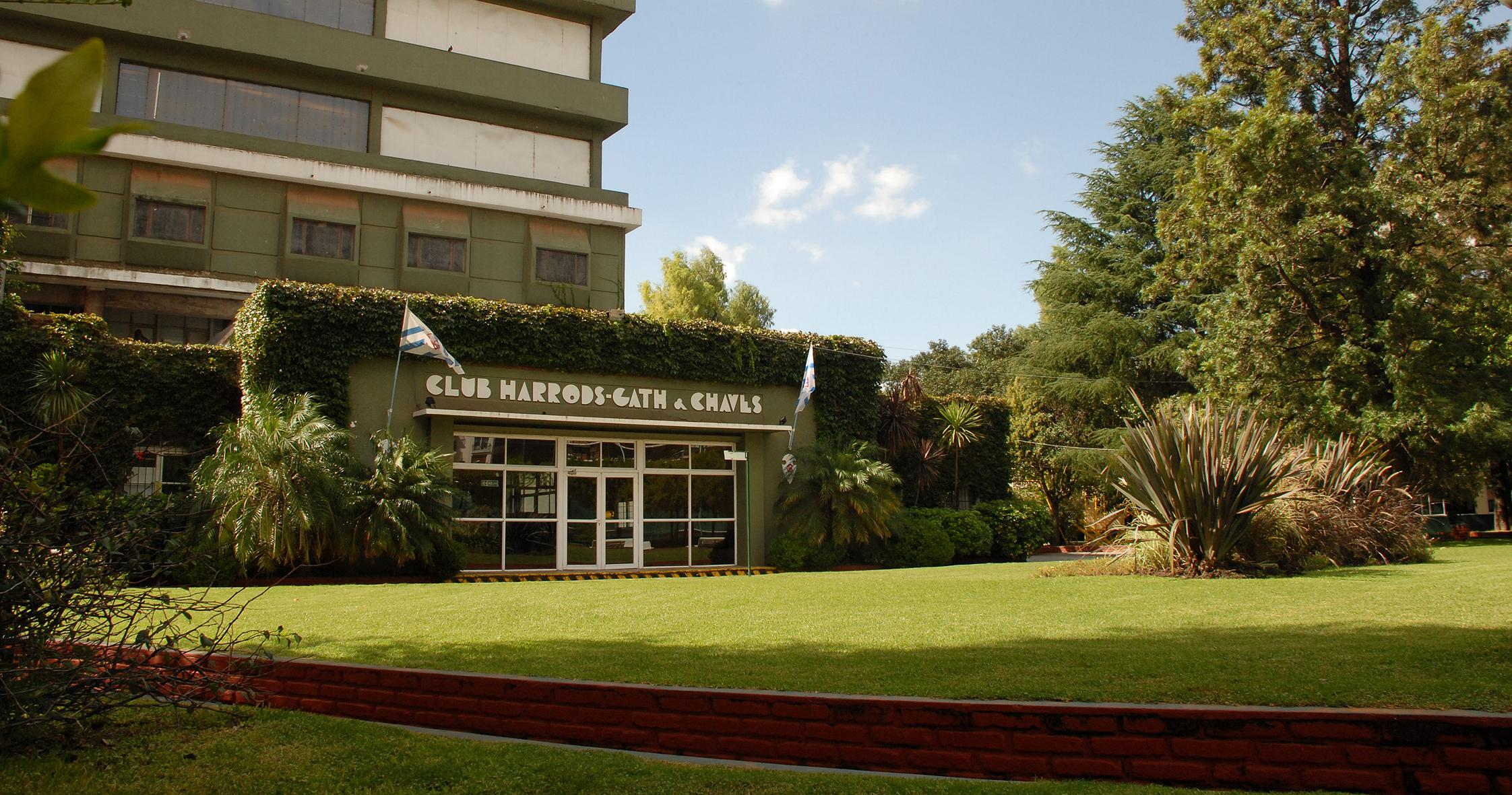 hr1